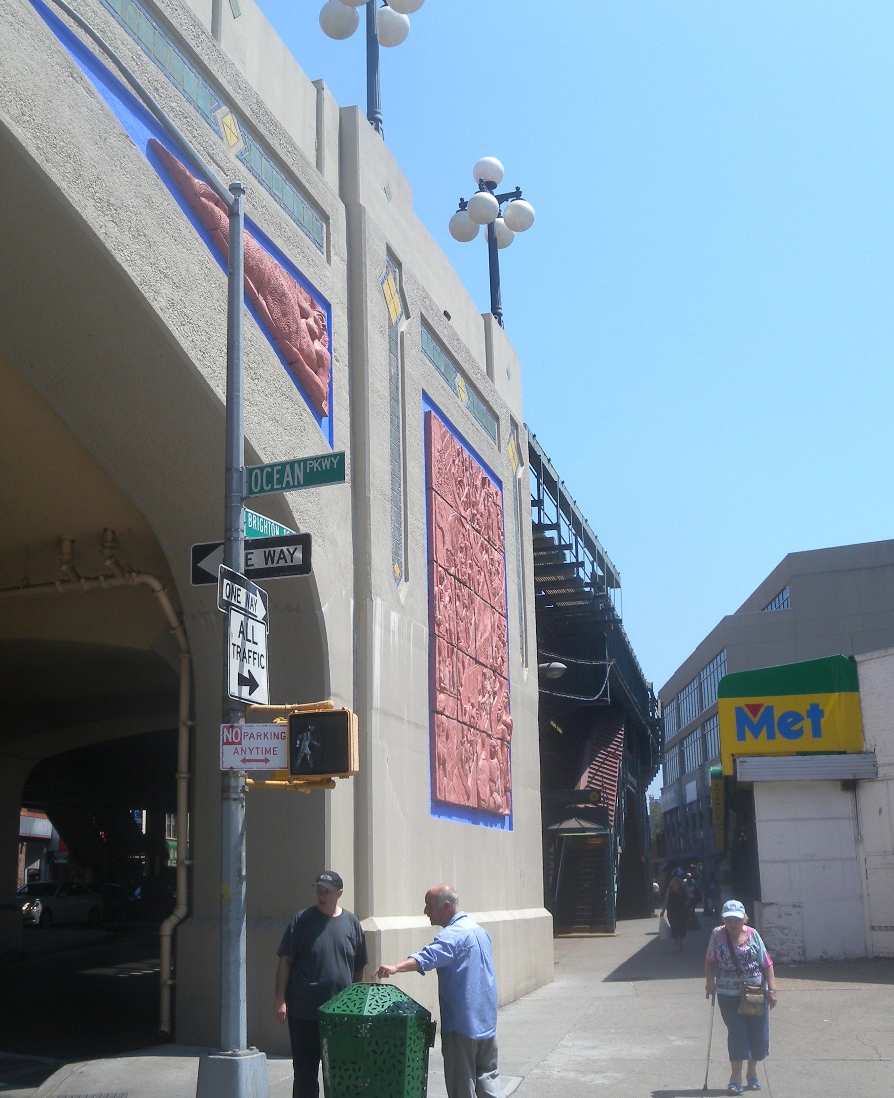 Looking northeast from Ocean Parkway at Brighton Beach Blvd station on a sunny afternoon.